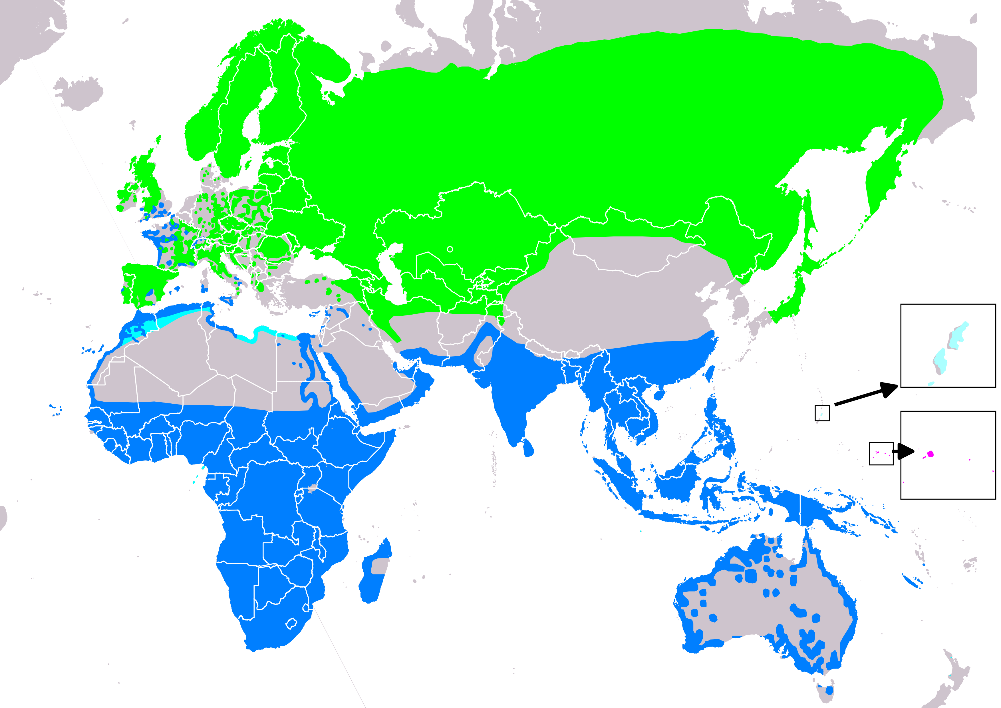 Map of common sandpiper (Actitis hypoleucos) according to IUCN version 2.18 , Legend: Extant, breeding (#00FF00), Extant, passage (#00FFFF), Extant, non-breeding (#007FFF), Possibly Extant (non-breeding) (#FF00FF), Possibly Extant (passage) (#AAFFFF)